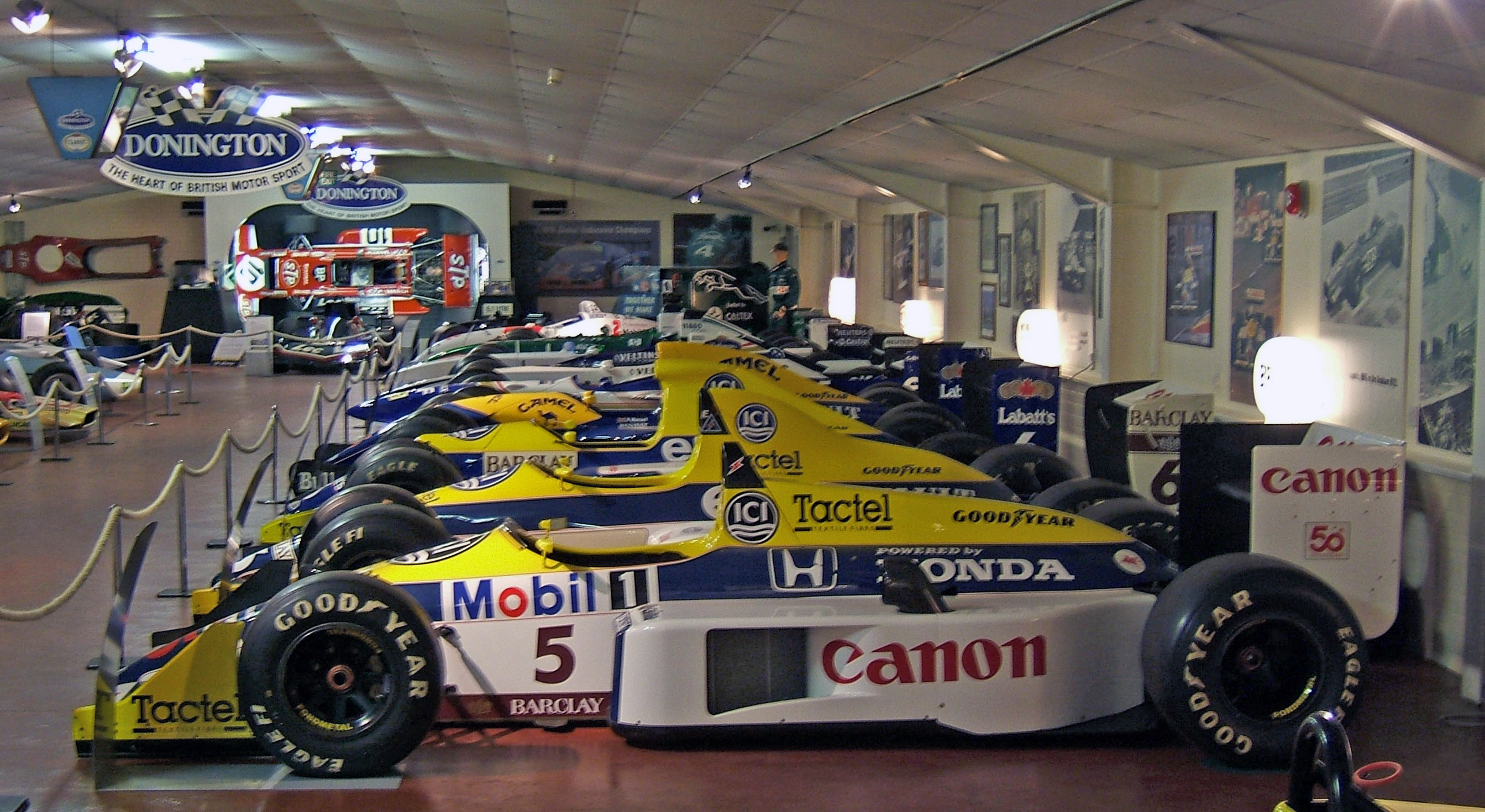 A portion of the Donington Grand Prix Collection's Williams Formula One car collection.